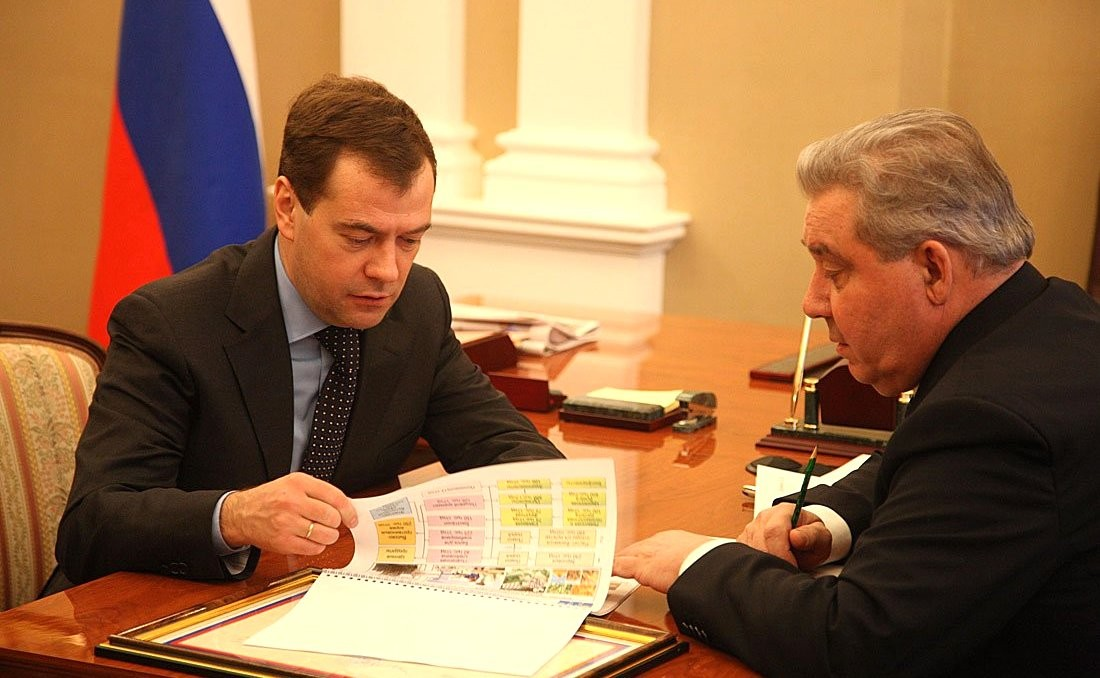 Omsk. Governor of Omsk Oblast Leonid Polezhayev.